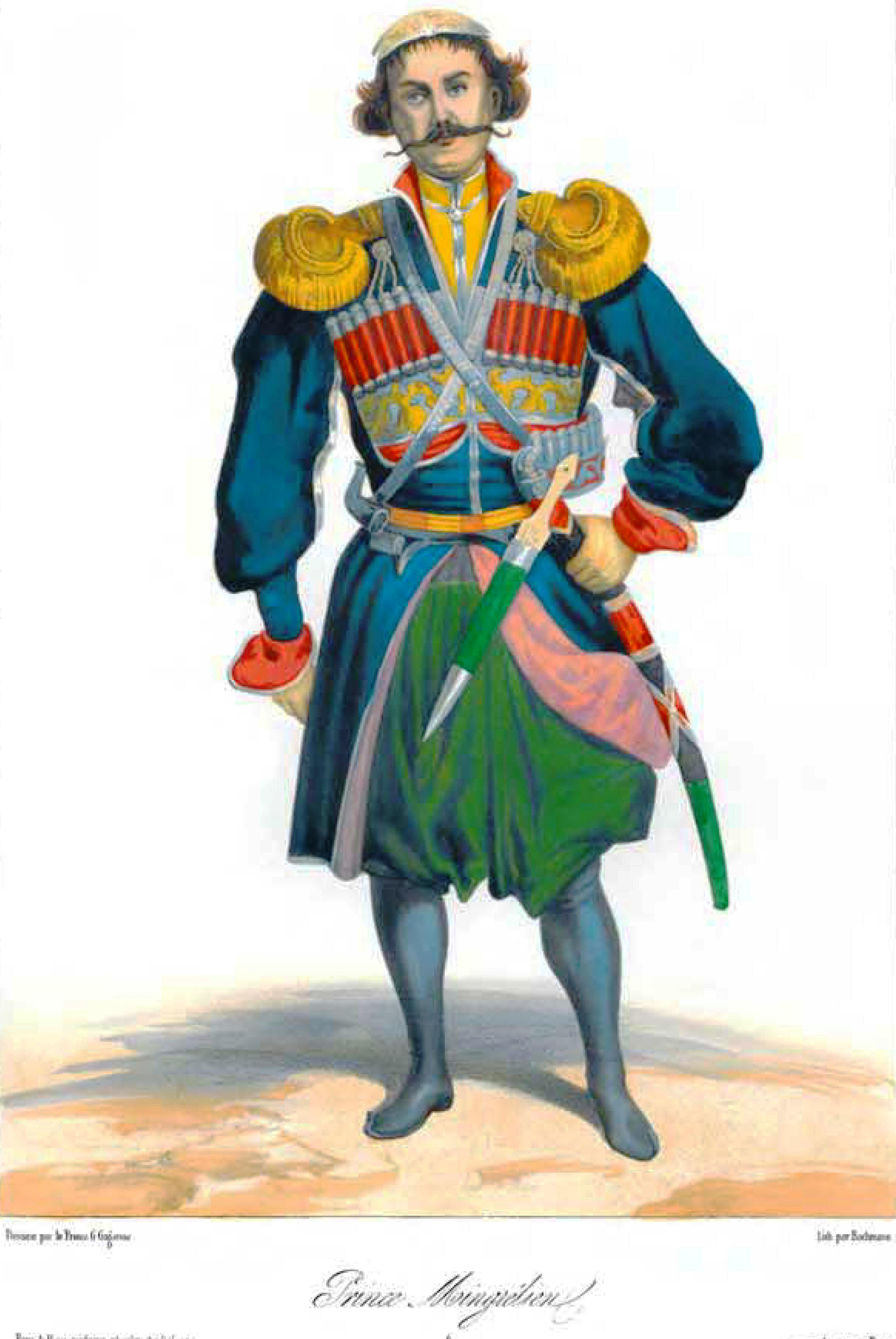 Mingrelian prince Scènes, paysages, moeurs et costumes du Caucase dessinés d'aprés nature par le prince G. Gagarine.